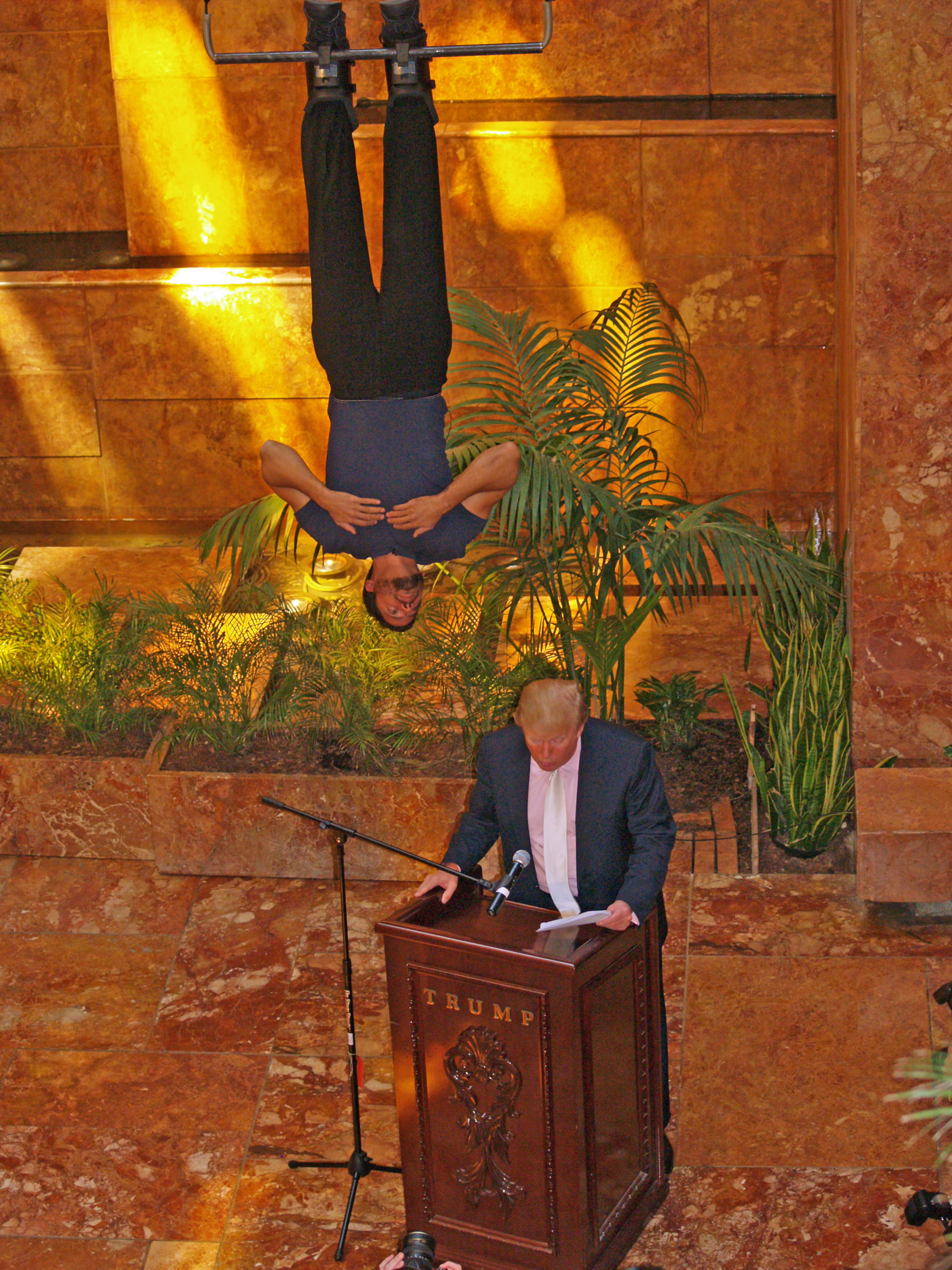 Donald Trump at a press conference with David Blaine announcing Blaine's latest feat, The Upside Down Man, in New York City at the Trump Tower.